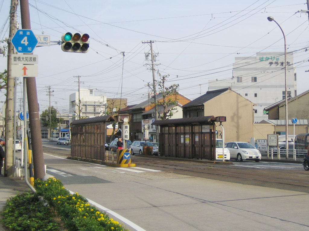 Higashihatcho Tram Stop on the Toyohashi Rail Road City Line, in Toyohashi City, Aichi Prefecture, Japan